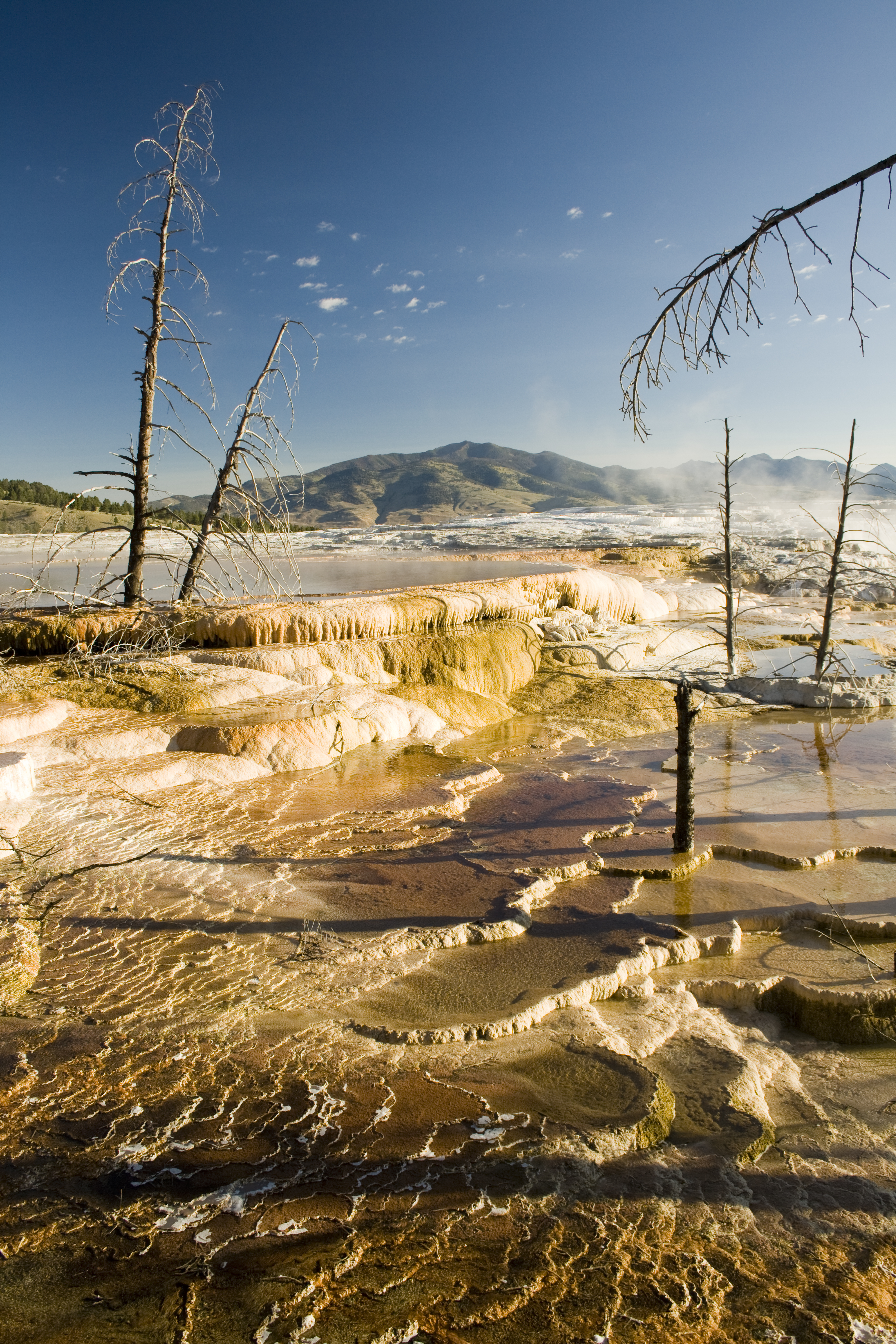 Mammoth Hot Springs, Yellowstone-Nationalpark